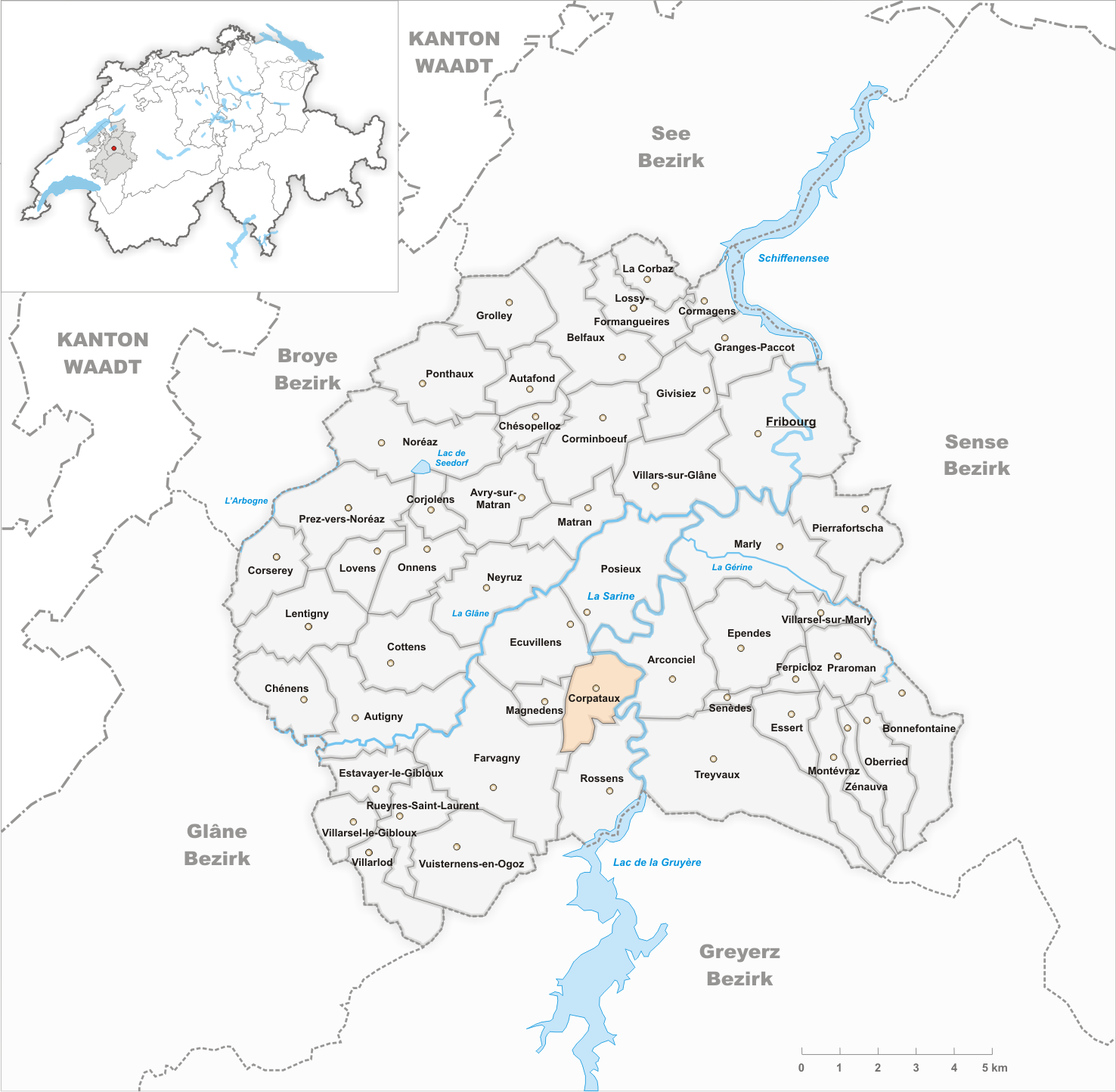 Municipality Corpataux Artist: Tschubby